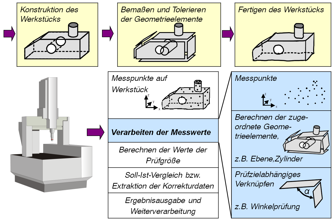 Principle of coordinate measuring technique